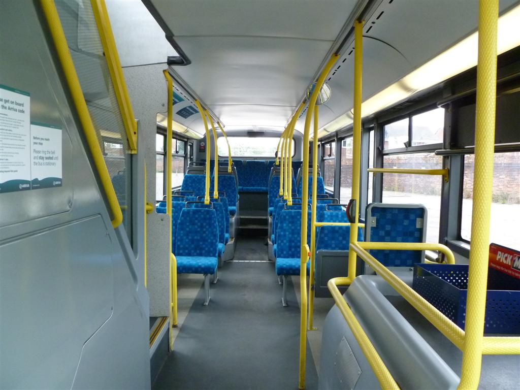 Dennis Trident / Plaxton President